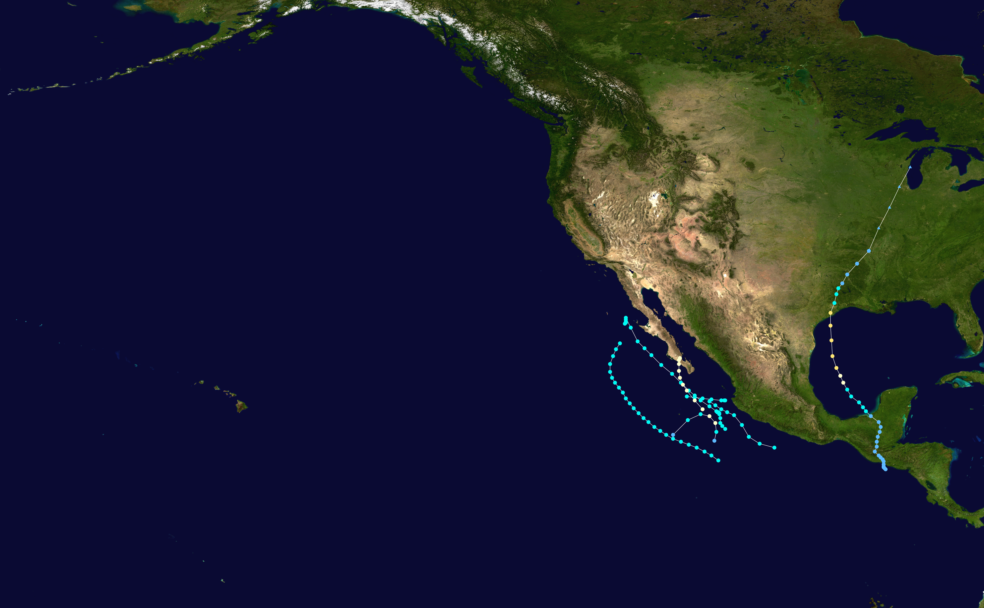 This map shows the tracks of all tropical cyclones in the 1949 Pacific hurricane season. The points show the location of each storm at 6-hour intervals. The colour represents the storm's maximum sustained wind speeds as classified in the Saffir-Simpson Hurricane Scale (see below), and the shape of the data points represent the type of the storm. Saffir–Simpson hurricane wind scale Tropical depression≤38 mph≤62 km/h Category 3111–129 mph178–208 km/h Tropical storm39–73 mph63–118 km/h Category 4130–156 mph209–251 km/h Category 174–95 mph119–153 km/h Category 5≥157 mph≥252 km/h Category 296–110 mph154–177 km/h Unknown Storm typeTropical cycloneSubtropical cycloneExtratropical cyclone / Remnant low / Tropical disturbance